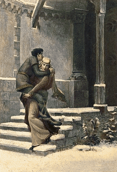 Hermann Schoenfeld: Women of the Teutonic nations. Philadelphia : Barrie, 1910